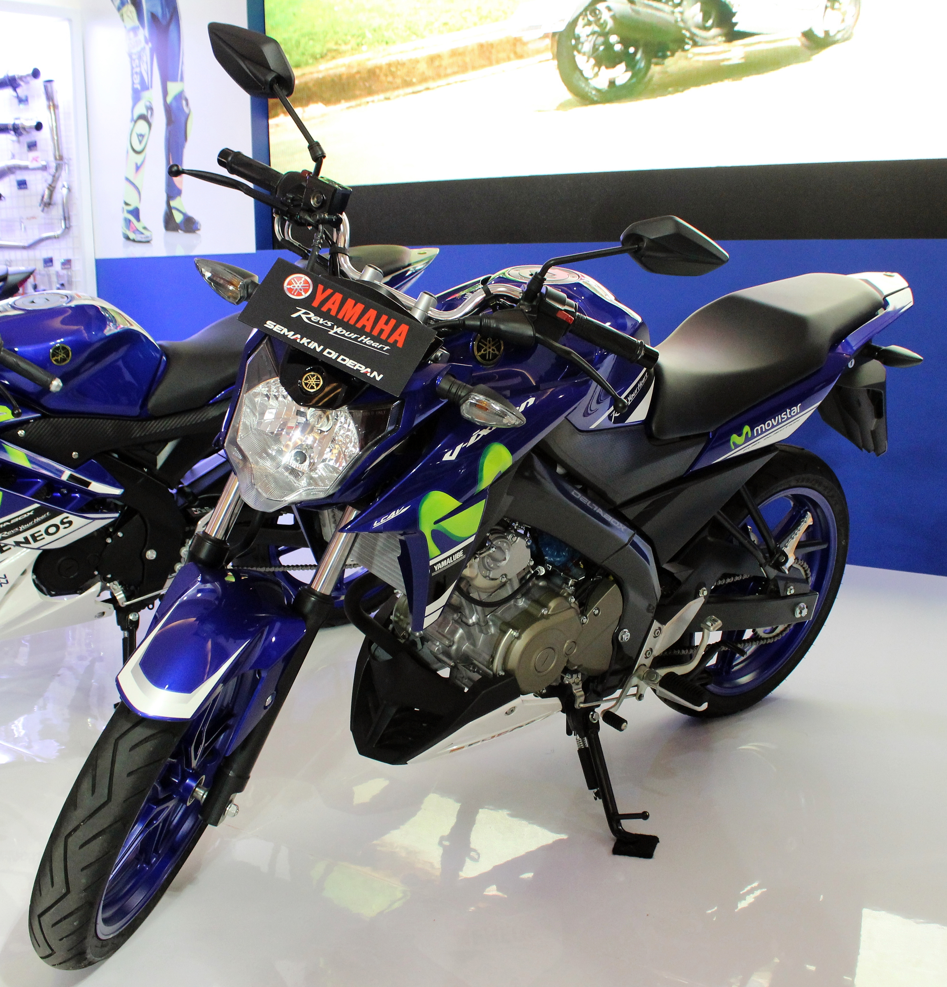 A Yamaha V-Ixion Advance photographed in Indonesia International Motor Show 2016, Jakarta, Indonesia on April 9, 2016.